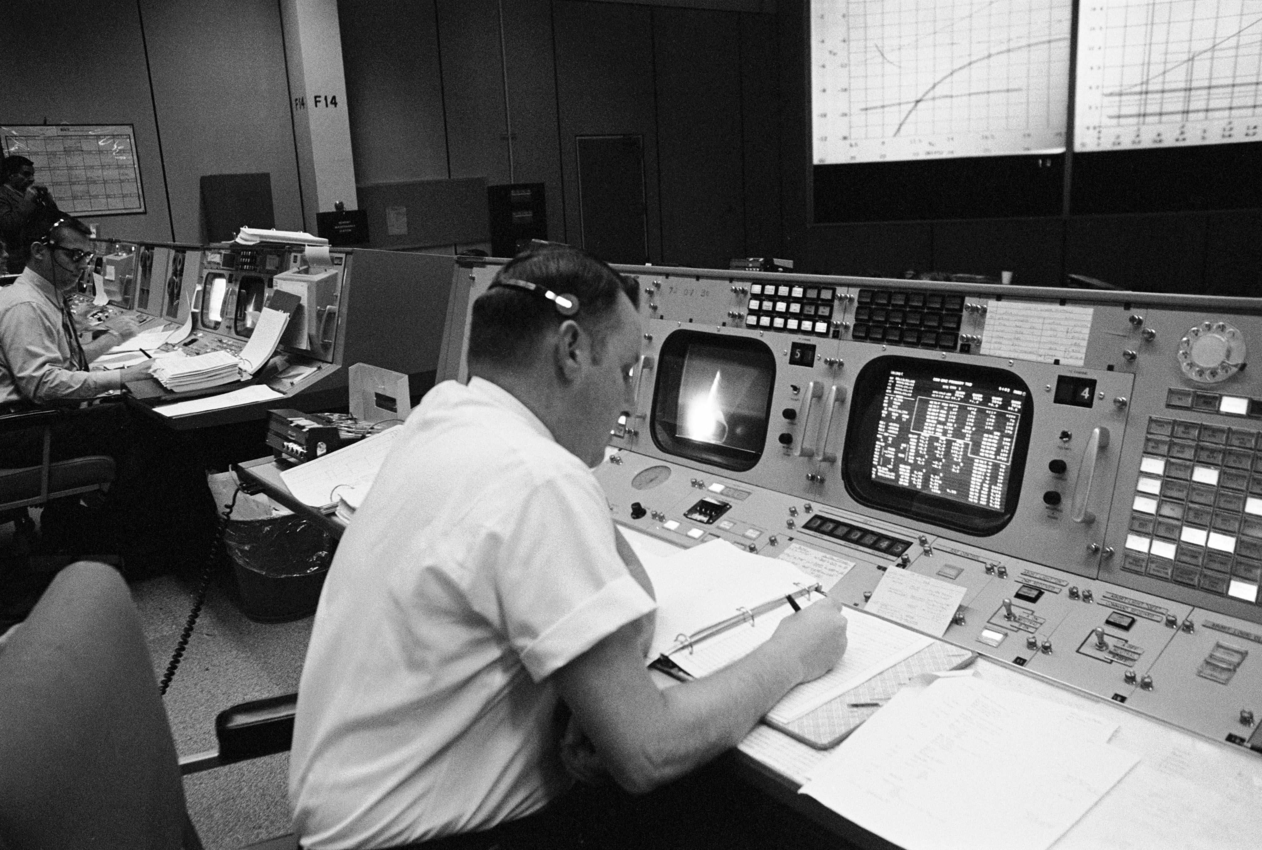 Clifford E. Charlesworth, Apollo 8 "Green Team" flight director, is seated at his console in the Mission Operations Control Room in the Mission Control Center, Building 30, during the launch of the Apollo 8 (Spacecraft 103/Saturn 503) manned lunar orbit space mission.